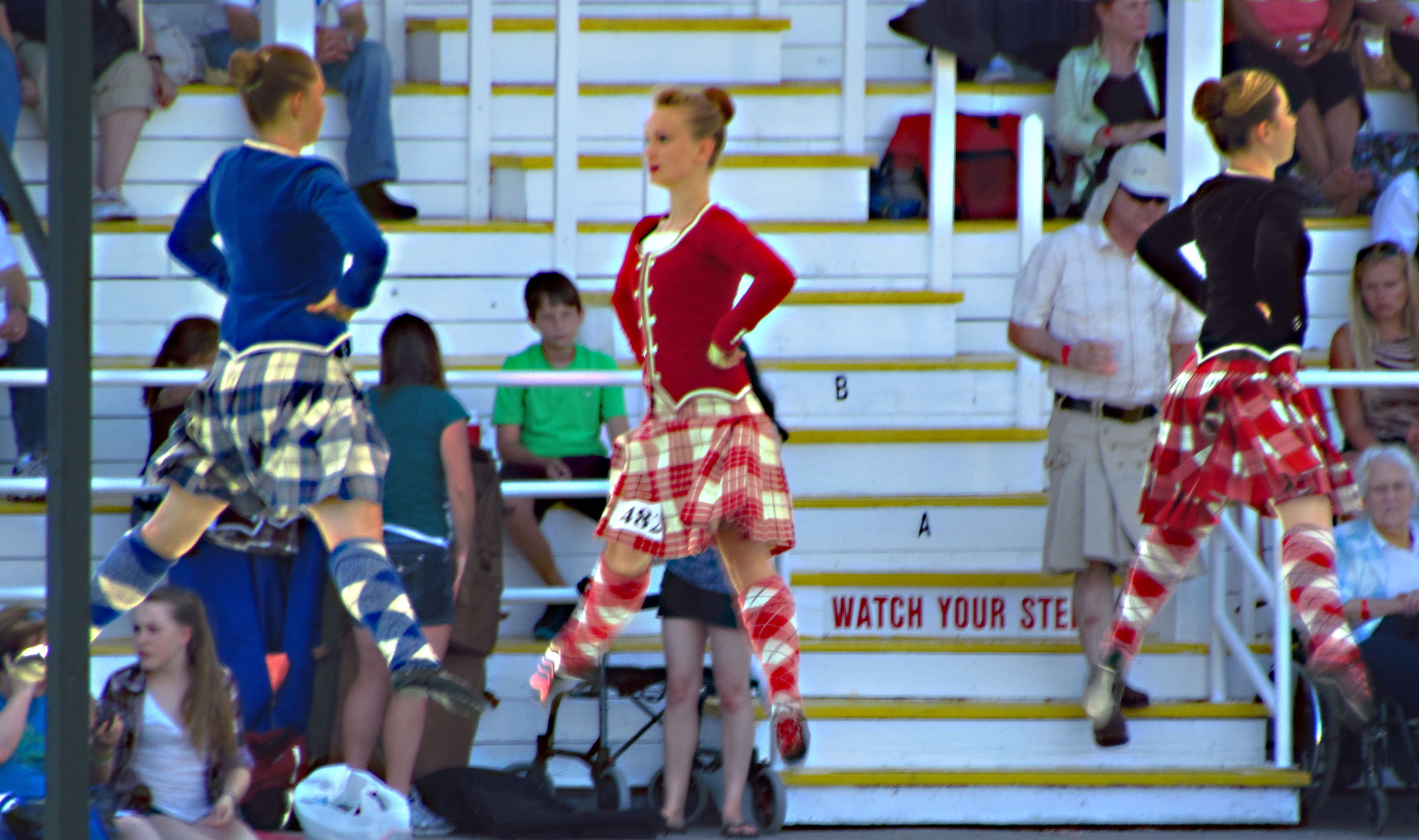 Scottish dancers compete at the Glengarry Highland Games, Maxville, Ontario, Canada, 2011